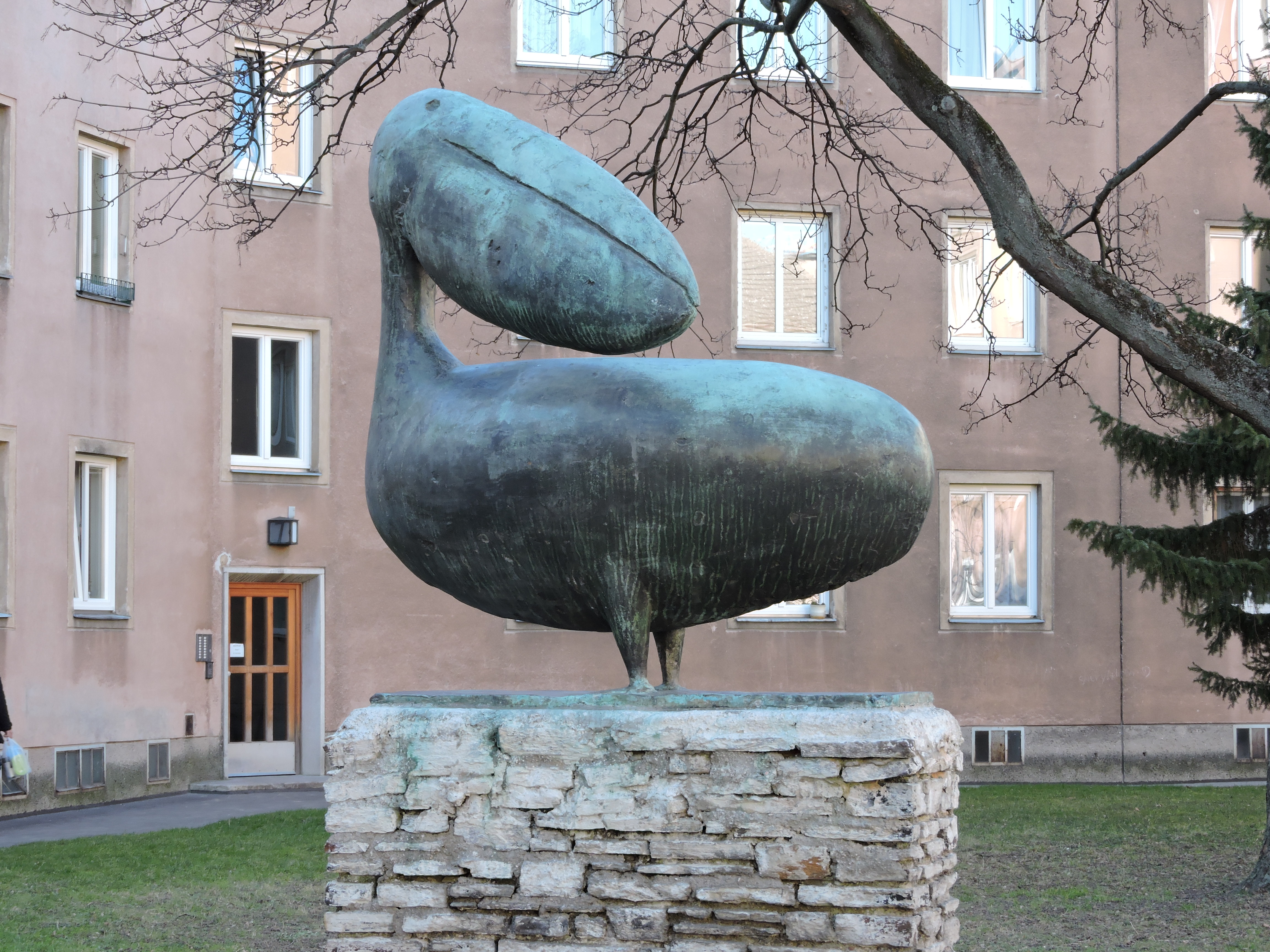 Sculpture of a Pelican